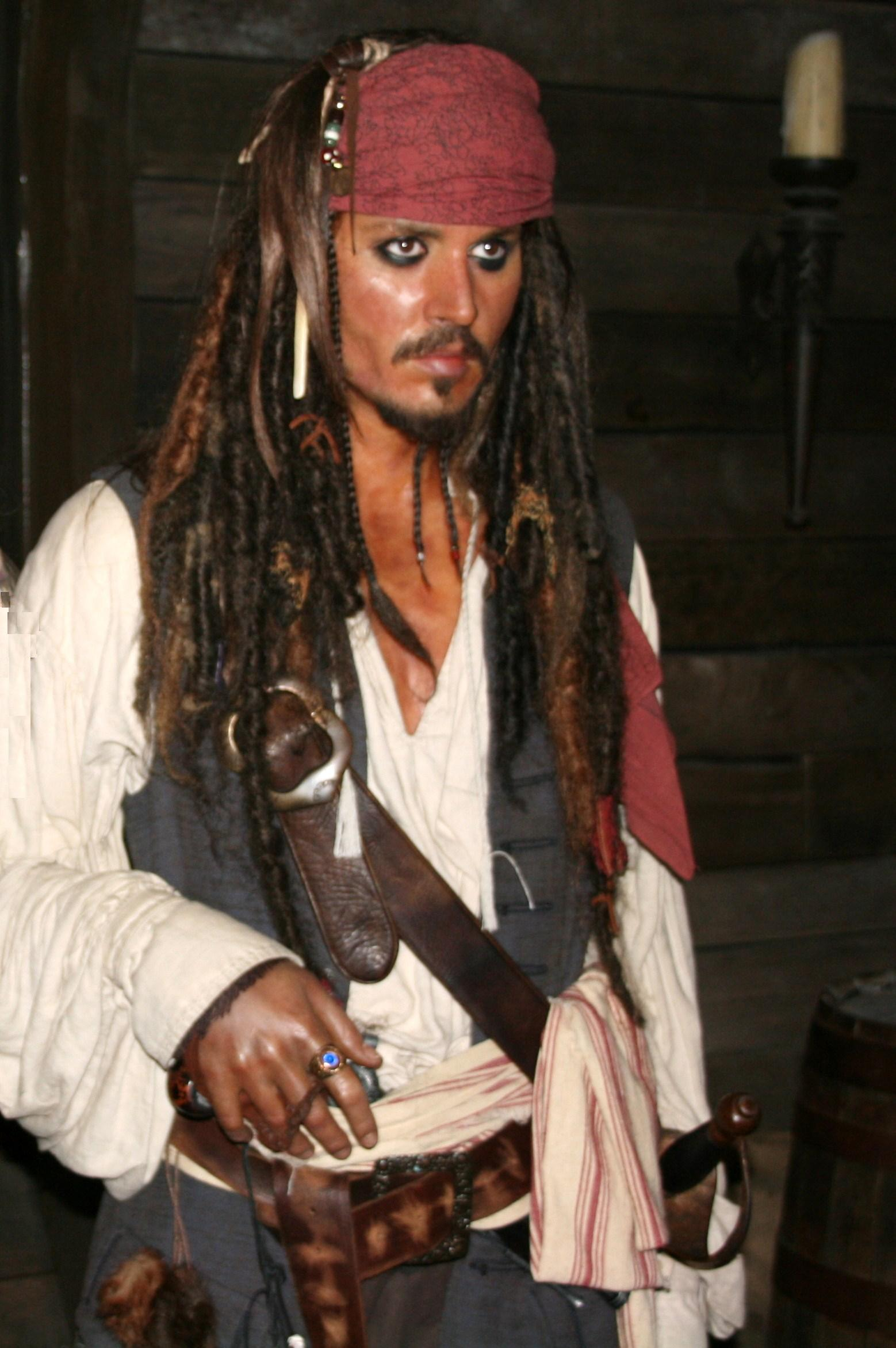 Jack Sparrow (Madame Tussauds, London).